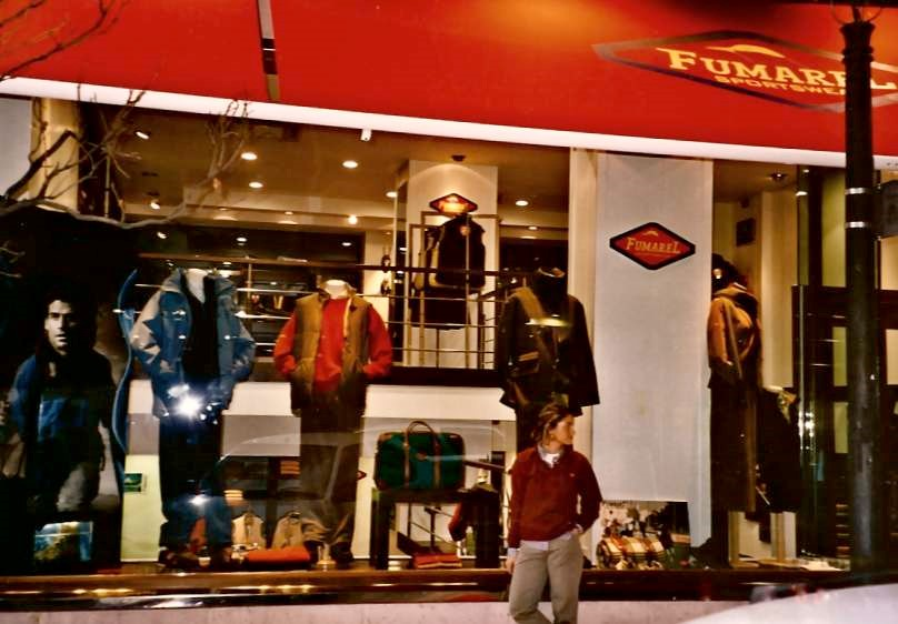 Forefront caption of a store from the Spanish clothing brand Fumarel